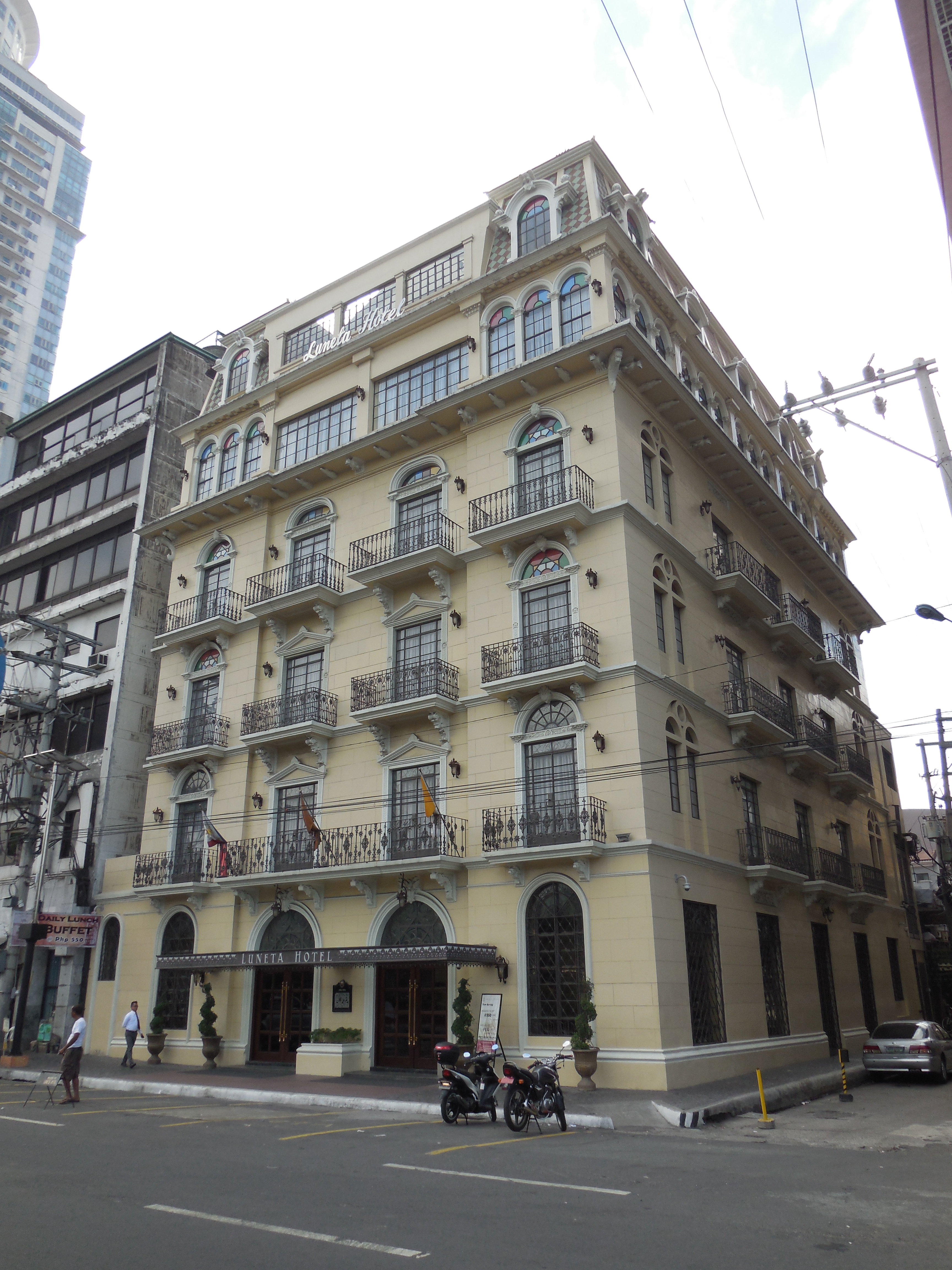 The facade of the Luneta Hotel, one of Manila's oldest hotels, along 414 Teodoro M. Kalaw Street. corner Alhambra Street, Ermita, Manila, Philippines. (14.580046 N, 120.978128 E)